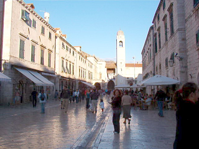 Dubrovnik historical city centre